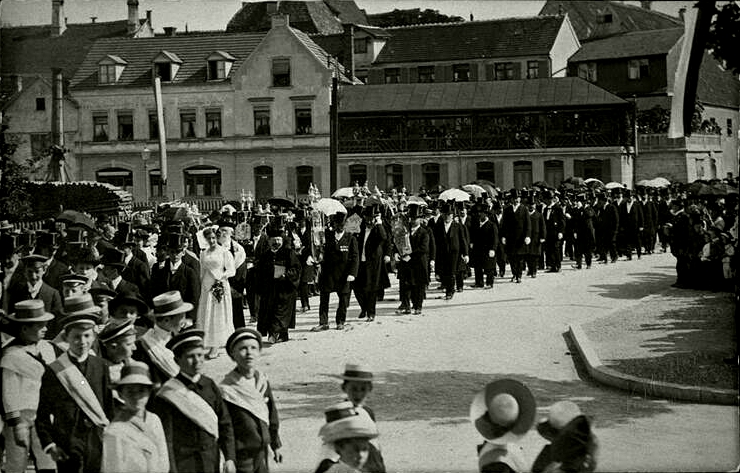 Walking with the torahs for synagogue inauguration in Memmingen.